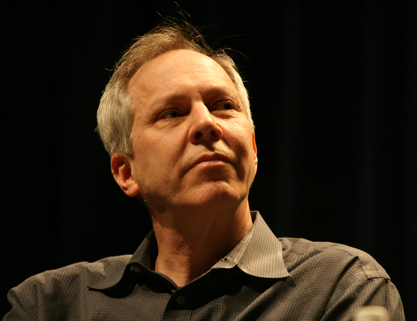 American journalist Stephen L. Baker at SXSW in Austin, Texas USA on March 15, 2009.